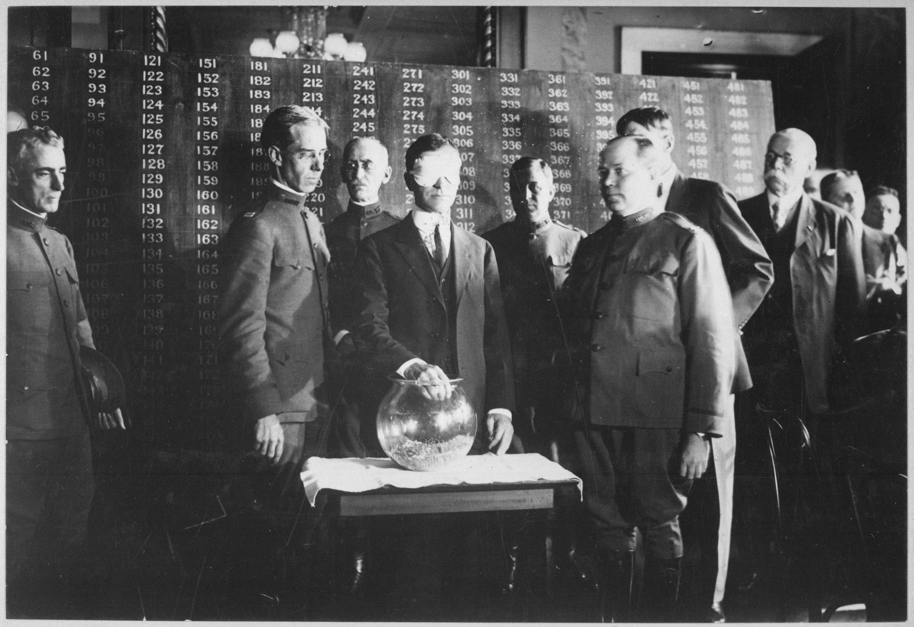 On 20 July 1917, Secretary of War Newton D. Baker, blindfolded, drew the first draft number in the lottery to be called up: Number 258. Those drafted were to serve in the American forces during world War I. Original Caption: Second Draft. The first number drawn was 246, and was picked from the urn by Secretary of War Baker. Photo shows Secretary Baker picking the first capsule out of the bowl. International Film Service., 06/1918 U.S. National Archives’ Local Identifier:165-WW-420(P379) From: American Unofficial Collection of World War I Photographs, compiled 1917 - 1918 (Record Group 165) Created By: War Department. (1789 - 09/18/1947) Production Date: 06/1918 Persistent URL: Repository: NARA's Still Picture Records Section, National Archives at College Park (College Park, MD) Buy copies of selected National Archives photographs and documents at the National Archives Print Shop online: Access Restrictions: Unrestricted Use Restrictions: Unrestricted